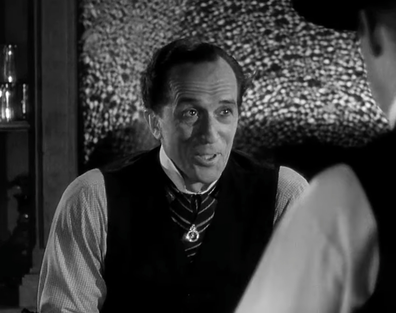 Screenshot of scene in the 1946 Western film Abilene Town showing actor Richard Hale as the supporting character Charlie Fair talking with the film's star Randolph Scott (with back to camera) in the role of Dan Mitchell.